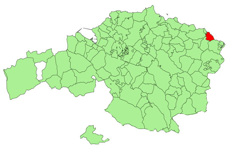 Mendexa municipality in the province of Biscay